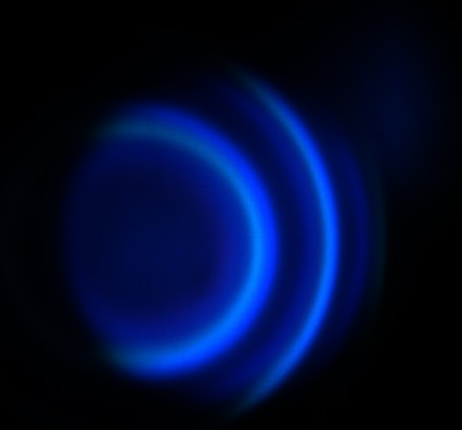 cropped from Image:Fabry Perot etalon Cd lamp.jpg